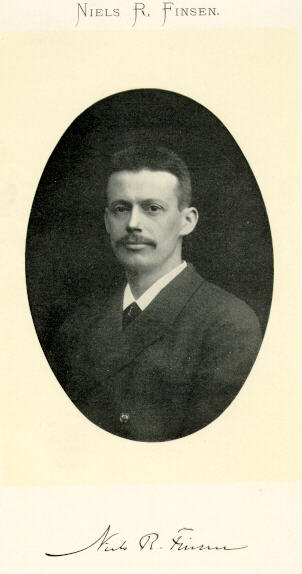 Picture of: Niels Ryberg Finsen